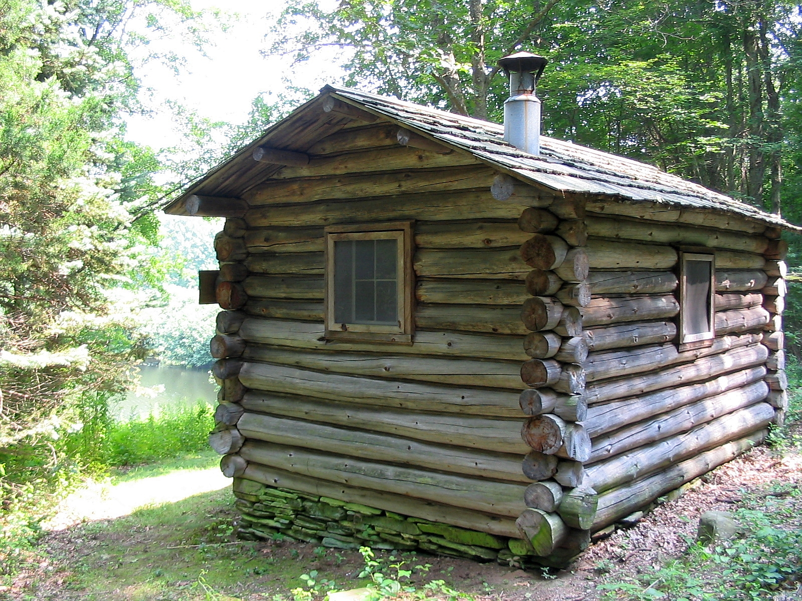 Writing cabin of Edwin Way Teal at Trail Wood near Hampton, Connecticut, USA